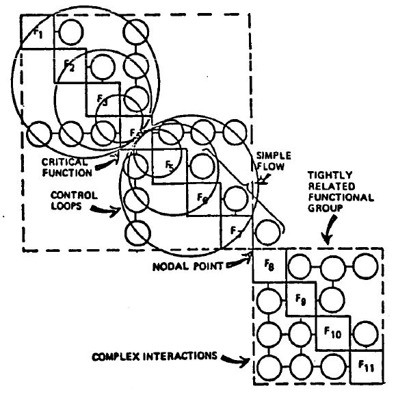 N2 Chart Key Features. Based on "R2 Chart" R.J. Lano, 1977